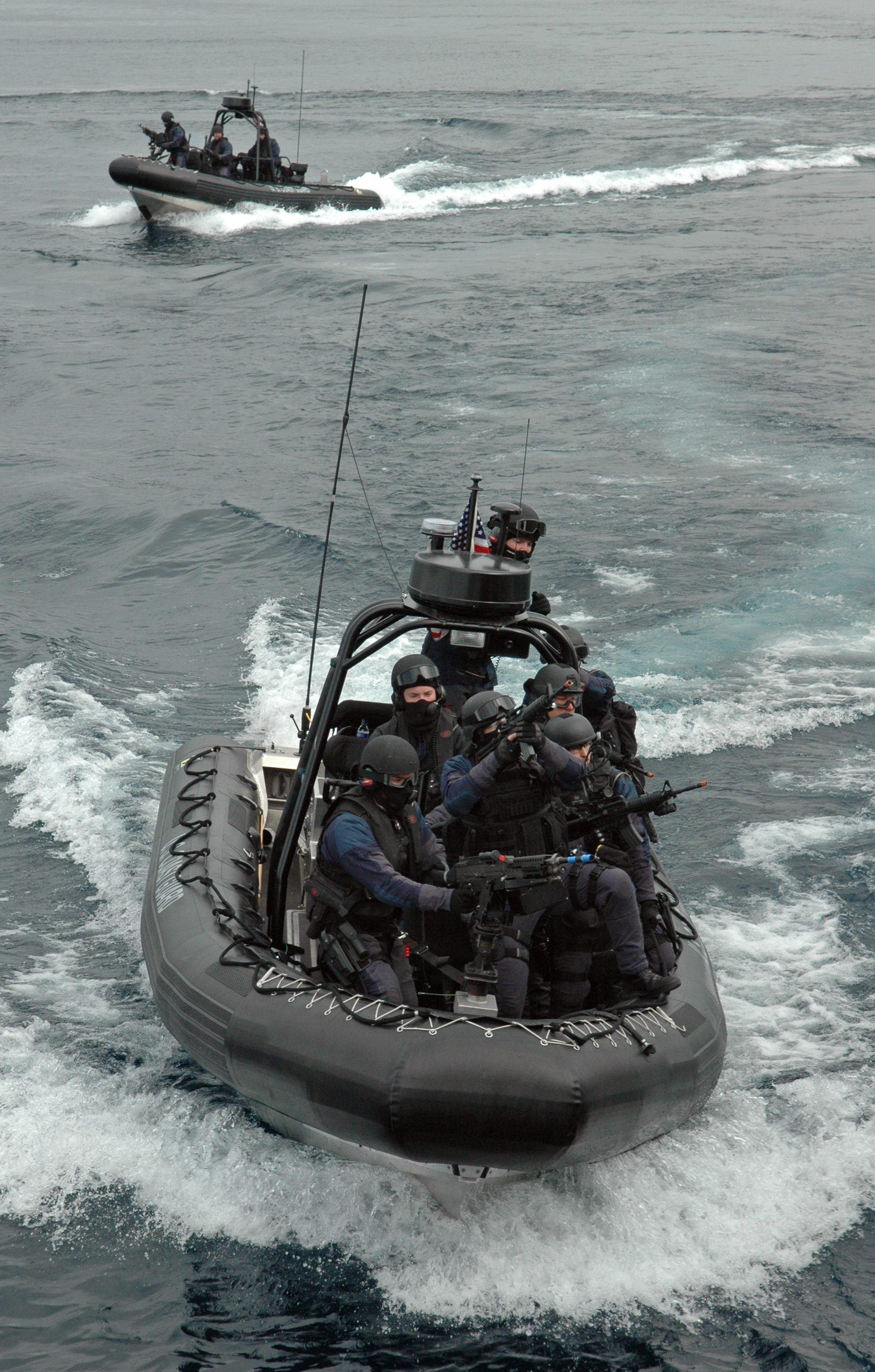 April 22, 2008) TAHOE CITY, Calif. - The Coast Guard, working with the Washoe County Sheriff Department and the Coast Guard Auxiliary, conducted a law enforcement training exercise on Lake Tahoe, Tuesday. The passenger vessel "Dixie II" served as a training platform for the Coast Guard's Maritime Safety and Security Team (MSST) to practice personnel deployment and boarding tactics from 23-foot Over the Horizon boats. The exercise also involved a 25-foot response boat from Coast Guard Station Lake Tahoe, and a safety boat provided by the Washoe County Sheriff Department.